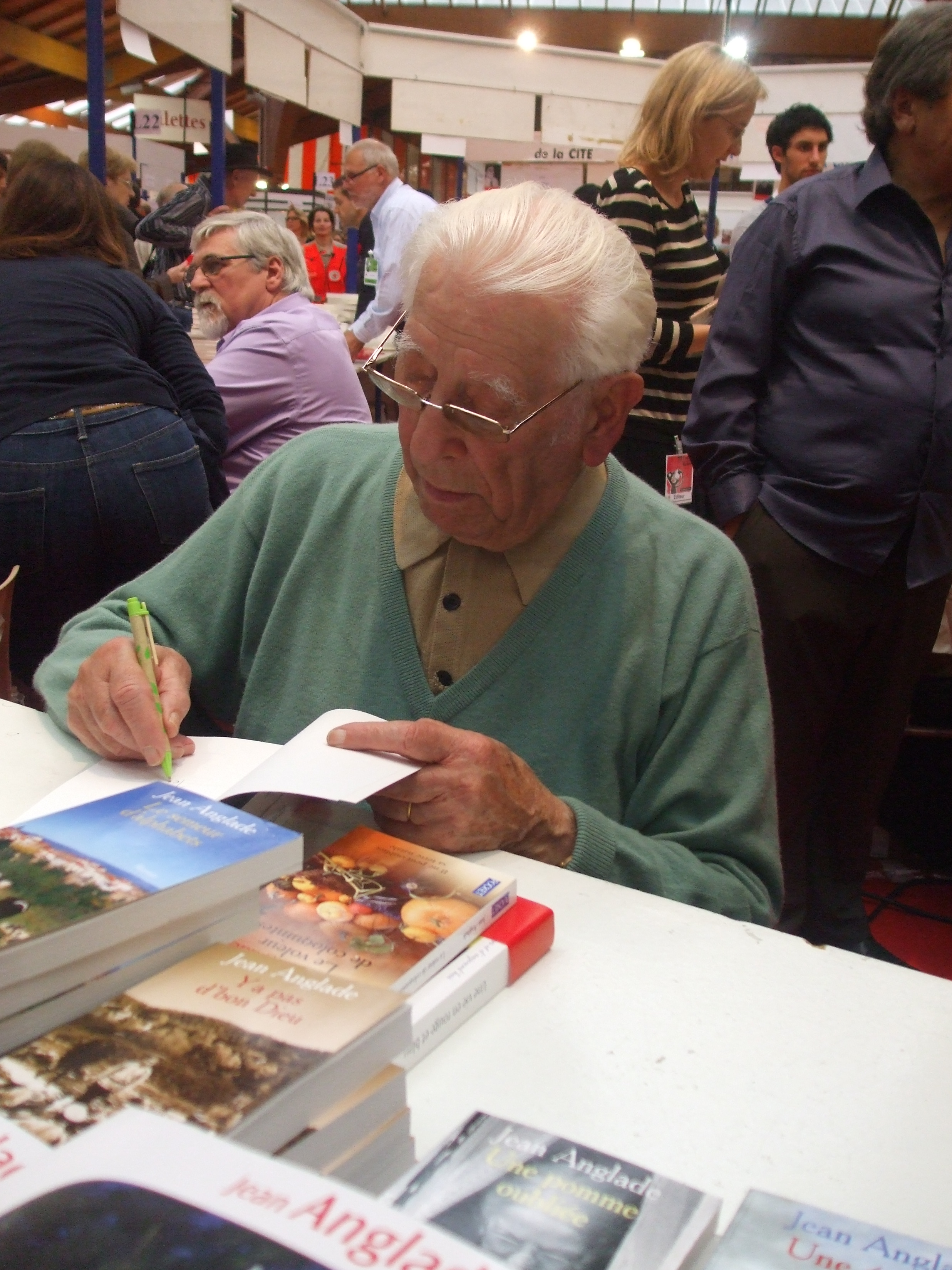 Jean Anglade, french writer, Brive la Gaillarde book fair, France, 2010 11 05